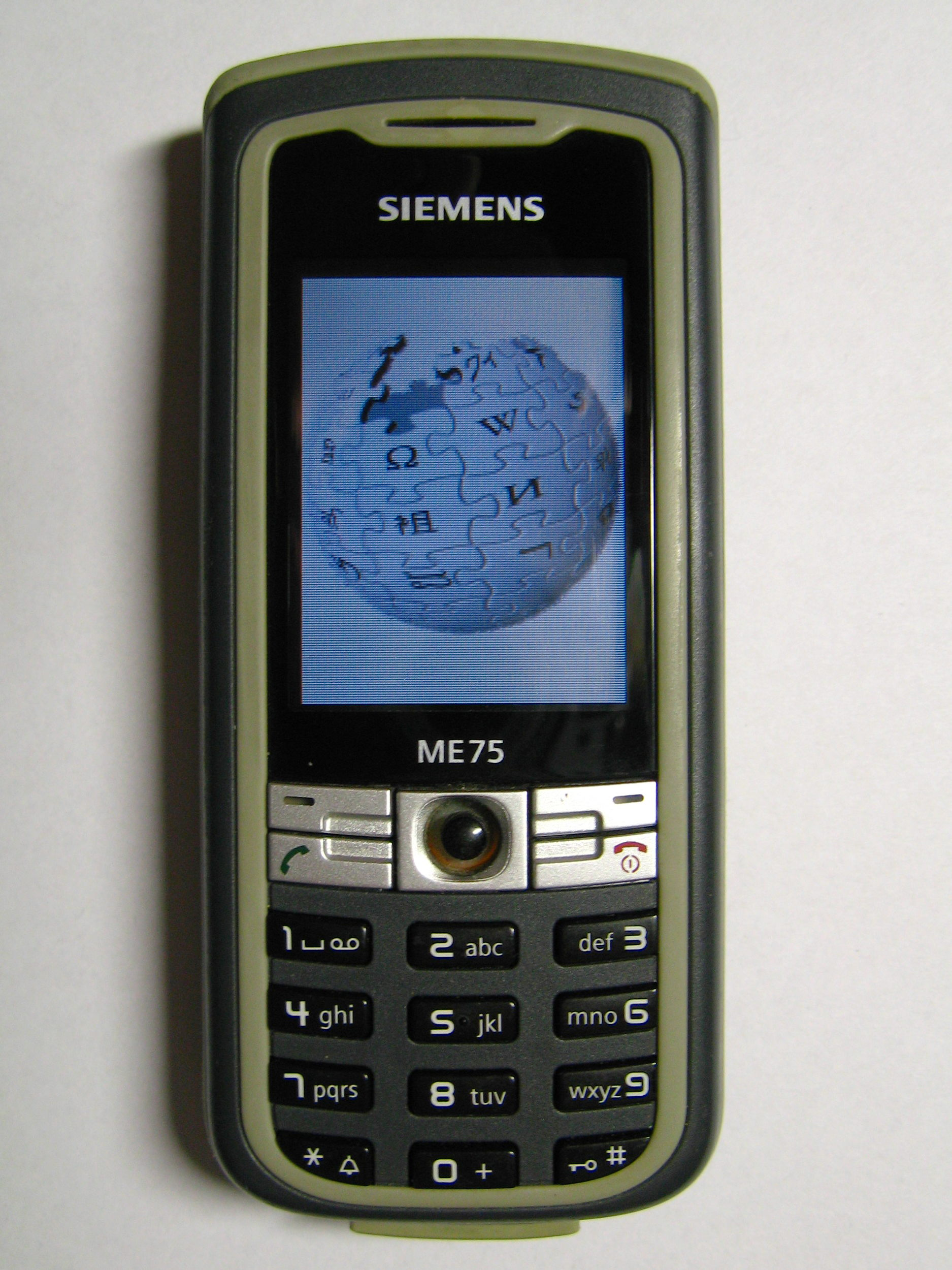 Mobile phone: Siemens ME75, color "Amazon Green"